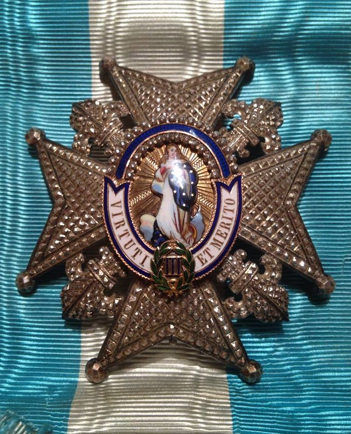 Picture taken by me (iPhone) from my Grand Cross breast star of the Order of Charles III, which is in my collection and bought at a medal store in september 2013.